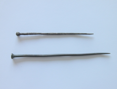 Its needles early Roman